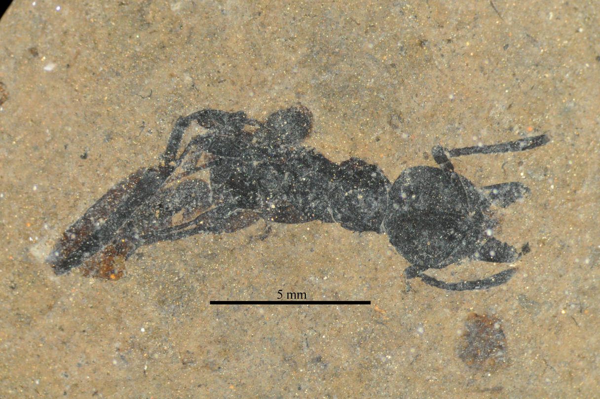 Pachycondyla lutzi paratype worker fossil. Specimen SMFMEI11481